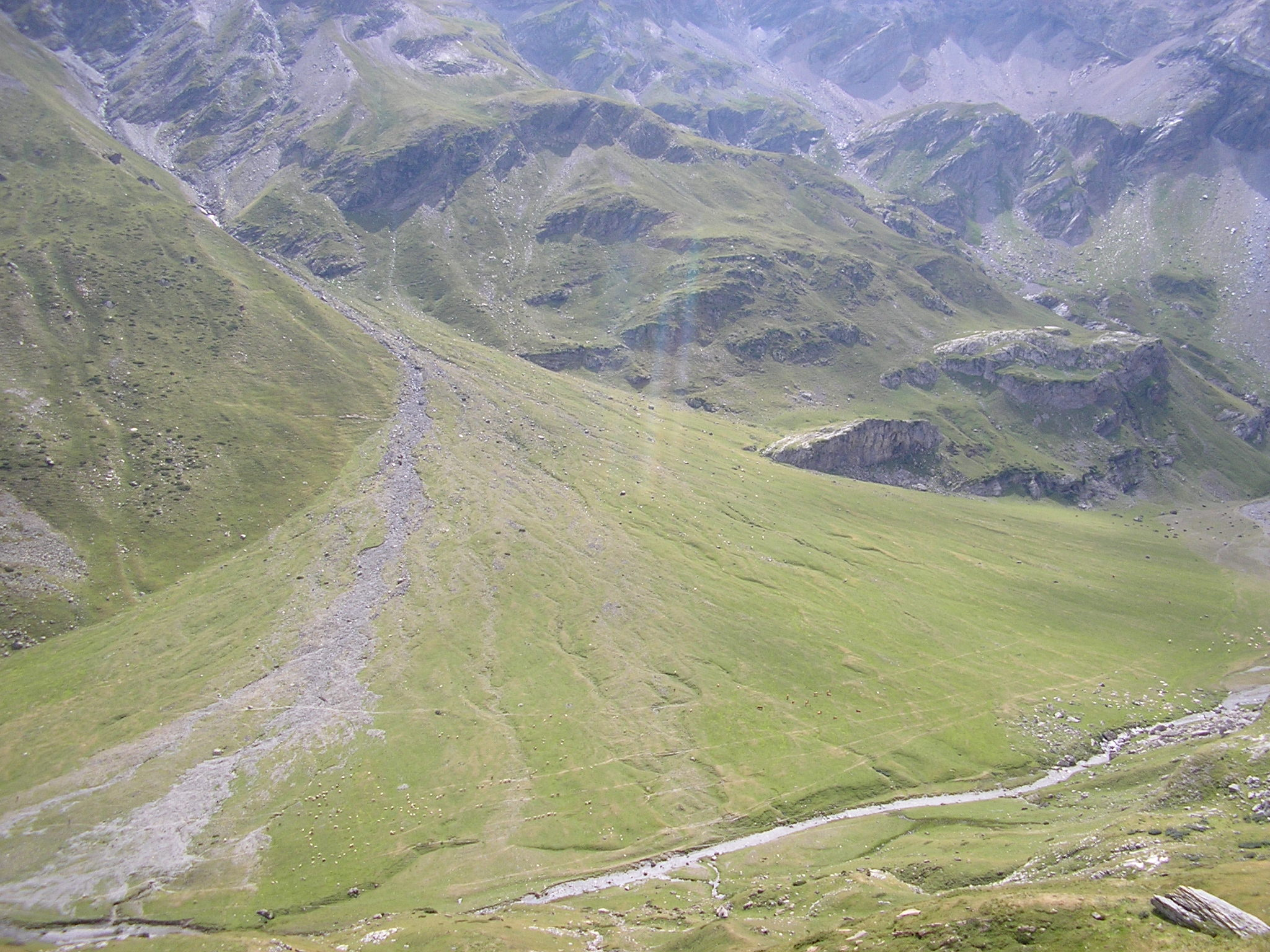 Alluvial fan in the Cirque d'Estaubé, French Pyrenees